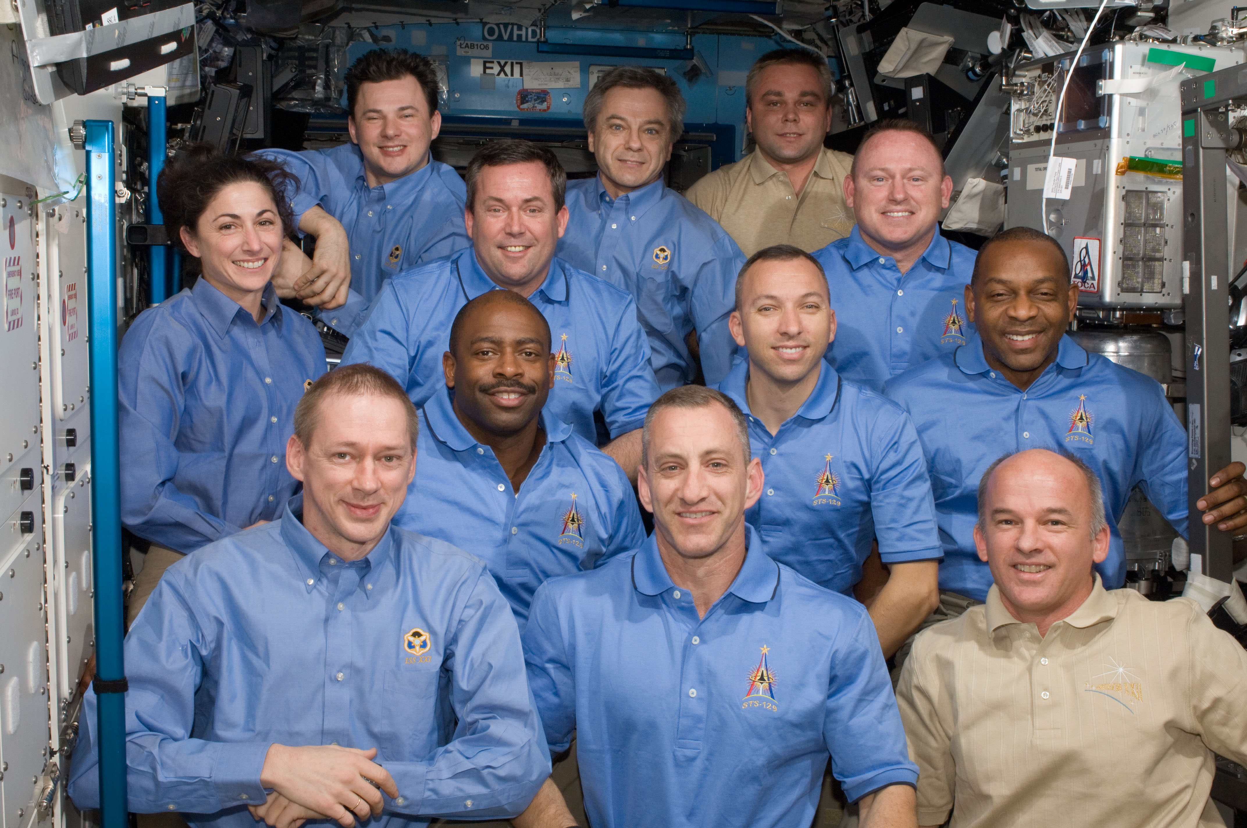 One of the last occasions for these twelve Internationally-represented astronauts and cosmonauts to spend time together in space was topped off with a series of group portraits aboard the International Space Station. The group includes the seven STS-129 Atlantis astronauts Charles O. Hobaugh, commander; Barry E. Wilmore, pilot; and Nicole Stott, Mike Foreman, Leland Melvin, Robert L. Satcher Jr. and Randy Bresnik, all mission specialists, plus the five ISS crewmembers, Jeffrey Williams, the European Space Agency's Frank De Winne, the Canadian Space agency's Robert Thirsk and Russia's Federal Space Agency cosmonauts Roman Romanenko and Maksim Suraev. The dozen are wrapping up over a week sharing duties, tasks and chores aimed toward complete development of the orbital outpost.